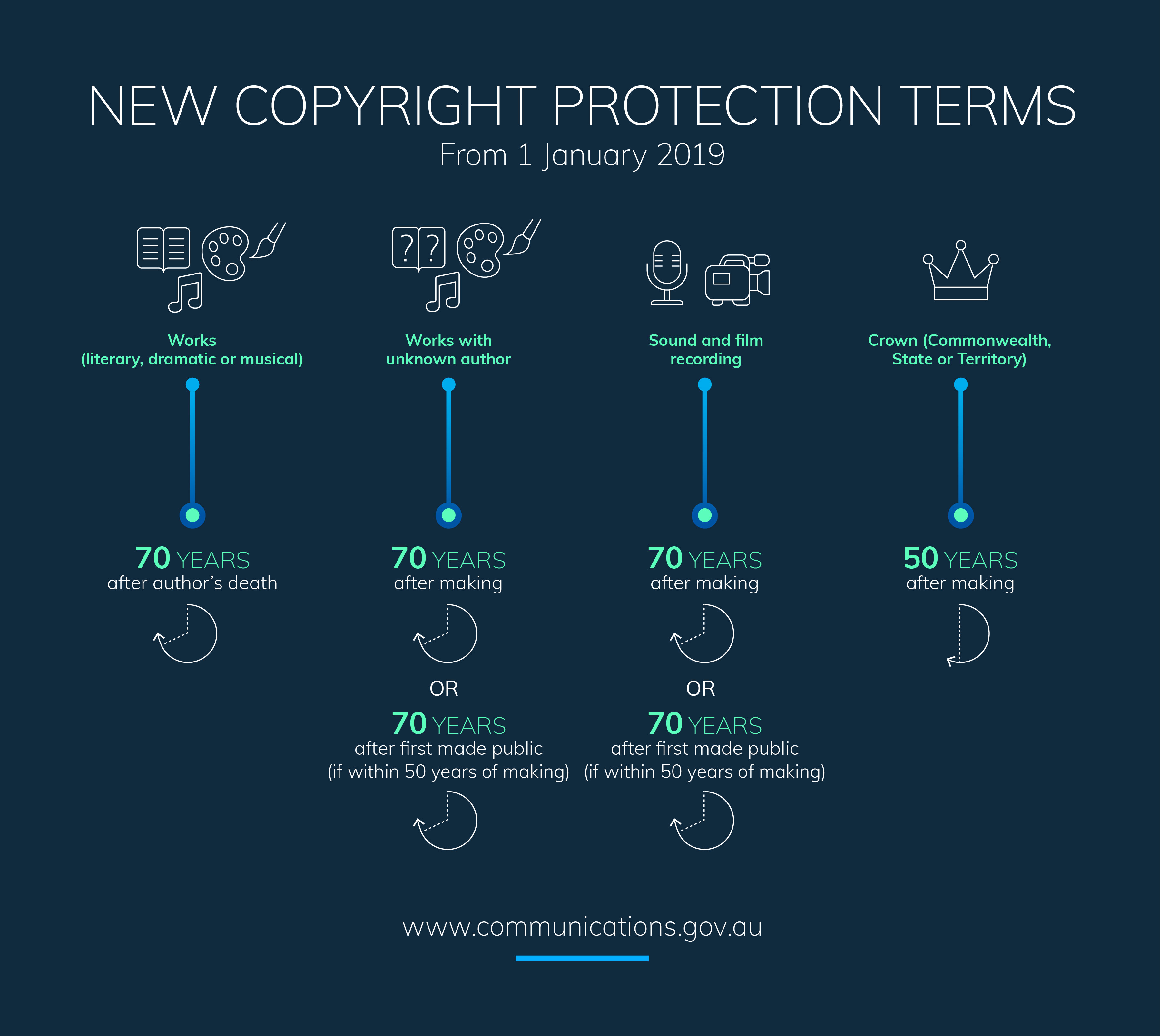 On 1 January 2019, changes to Australia’s copyright duration laws will come into effect. Amendments to the Copyright Act 1968 will apply new standard terms of copyright protection in Australia to a range of copyright materials. This includes literary, dramatic, musical and artistic works, sound recordings, films and Crown copyright materials.